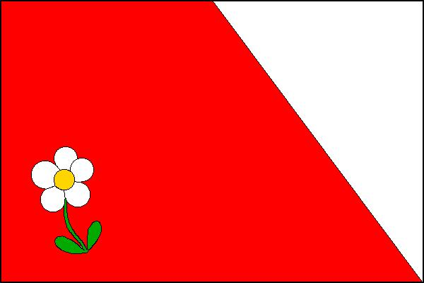 Flag of the village of Nový Přerov, Czech Republic.